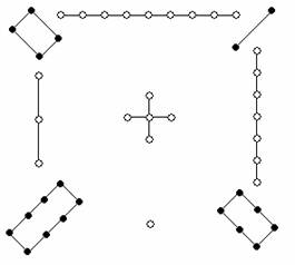 Traditional Chinese representation of 3x3 "Lo Shu" magic square (File:MagicSquare-LoShu.png). See also File:Magic square Lo Shu.png